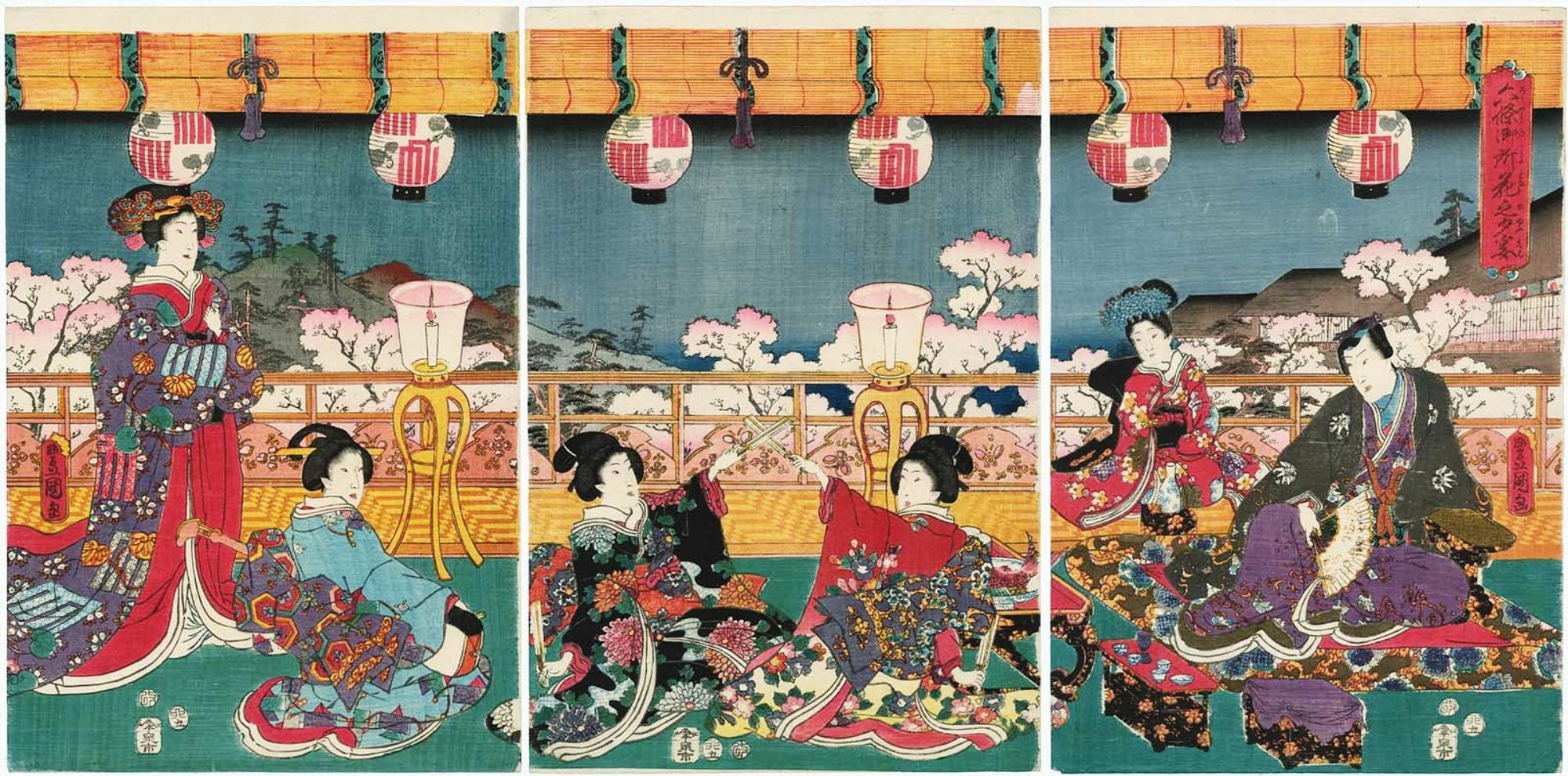 六条御所花之夕宴 Evening Banquet for Cherry-blossom Viewing at the Rokujô Palace (Rokujô gosho hanami no yûen)